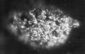 A photomicrograph of the first isolated bulk (1.7 micrograms) sample of berkelium. The lump is 100 μm across.